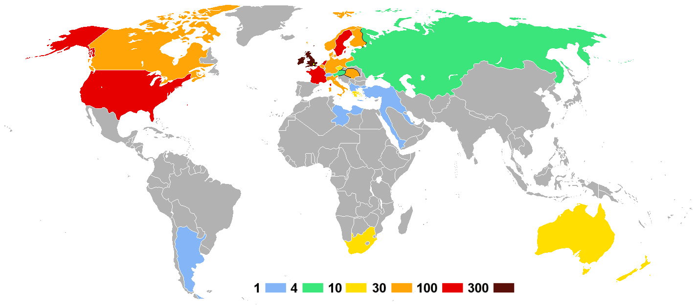 Countries that competed in the 1908 Summer Olympics by number of athletes. Derived from Image:1908_Summer_olympics_team_numbers.png and Image:BlankMap-World-1912.png.